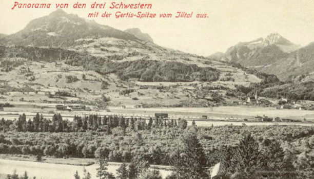 In the foreground the riparian forest on the Ill (river), behind it Frastanz (parish church), above the hamlet Stutz, Stuzberg and Bazora and the Gurtisspitze (mountain). Right the Saminatal and the Drei Schwestern (mountain).